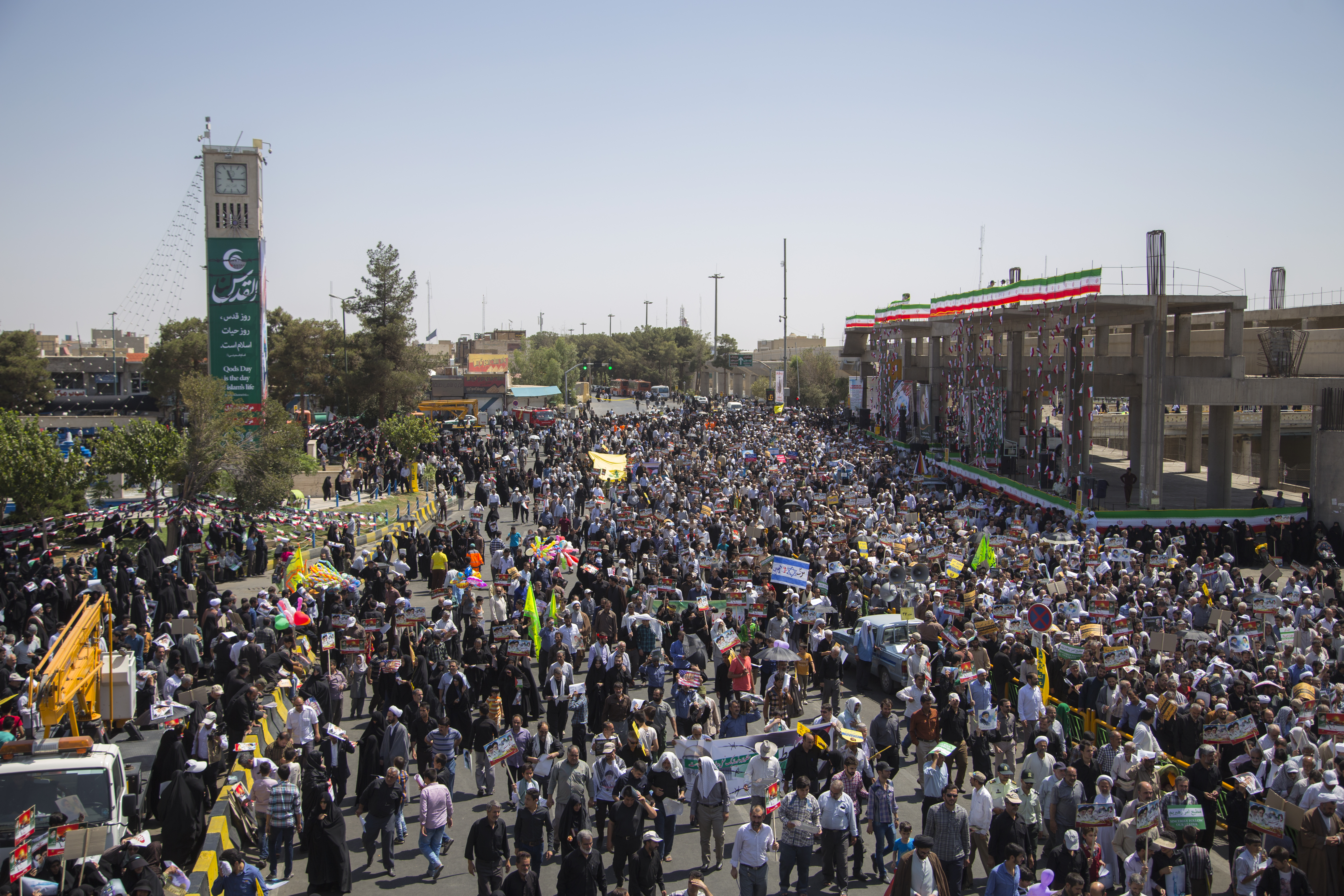 Quds Day officially called International Quds Day is an annual event held on the last Friday of Ramadan that was initiated by the Islamic Republic of Iran in 1979 to express support for the Palestinians and oppose Zionism and Israel, as well as Israel's occupation of Jerusalem and Jewish settlements in Israeli-occupied territories .